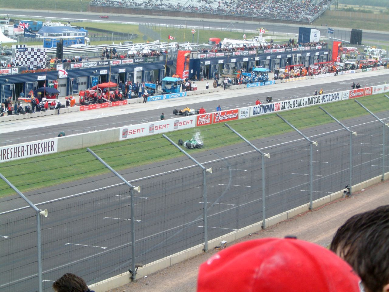 Shinji Nakano after crashing his car in the 2002 Sure For Men Rockingham 500